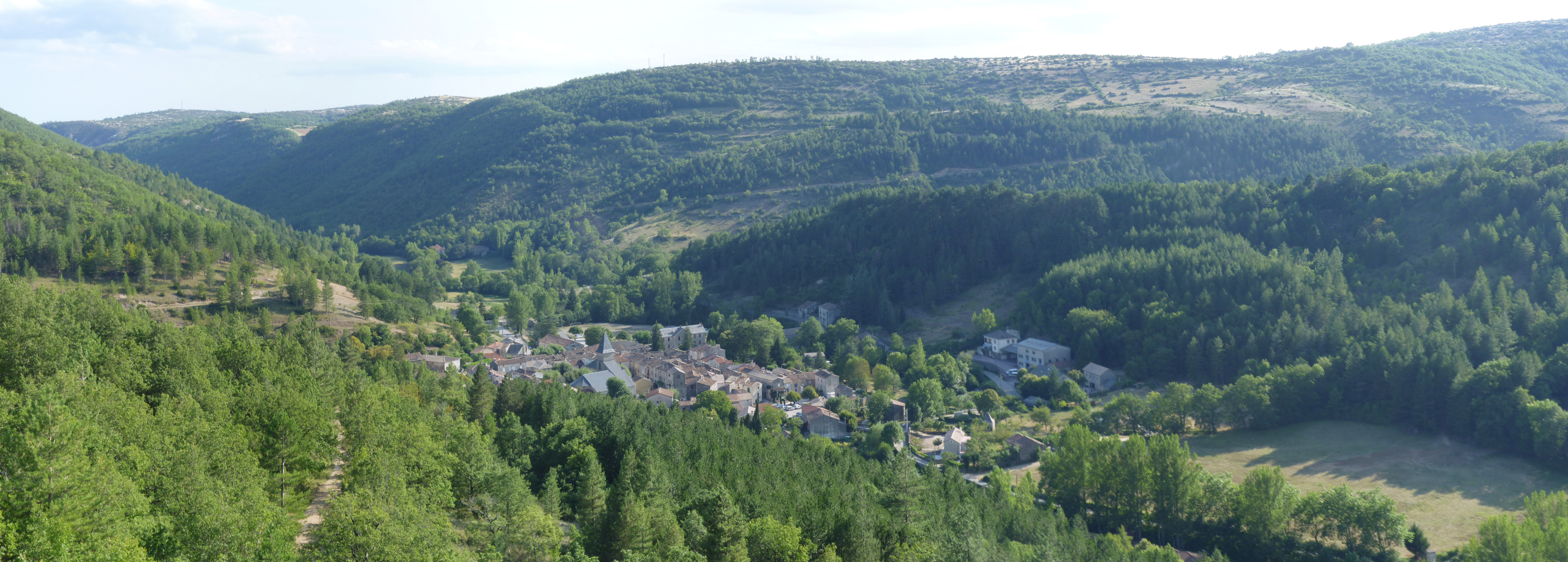 Composite view of the town of Alzon (Gard, France) ~ August 18, 2010, around 17h CEST Image assembled with the help of Hugin software.